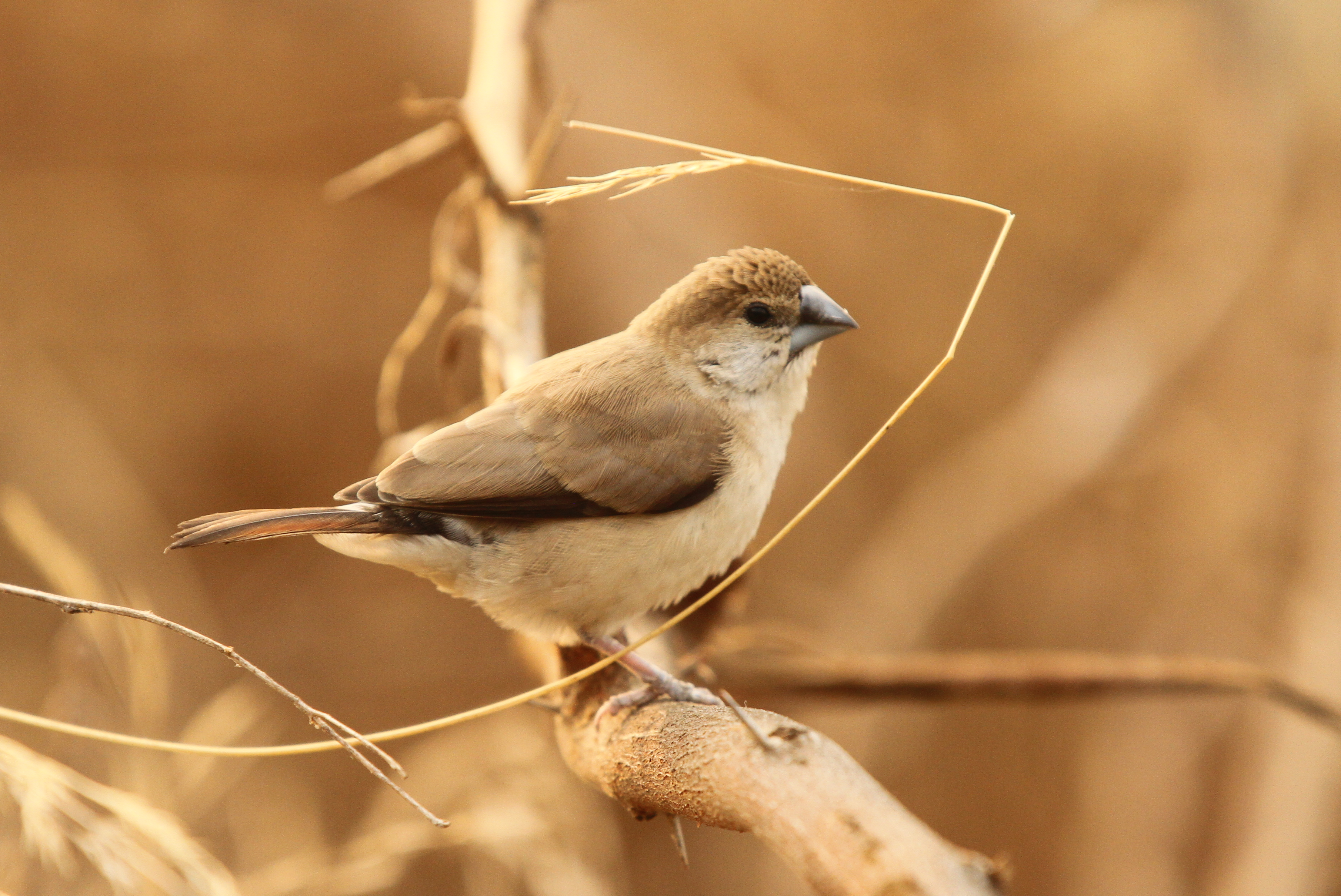 birds of India